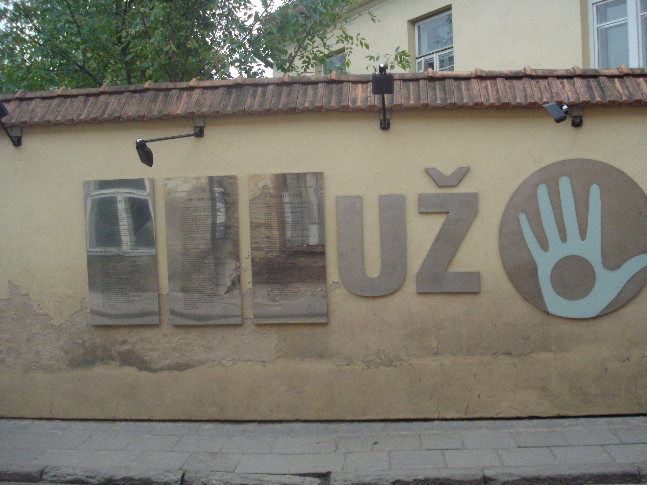 Constitution of the Republic of Užupis (Užupio Respublikos Konstitucija). Paupio g.